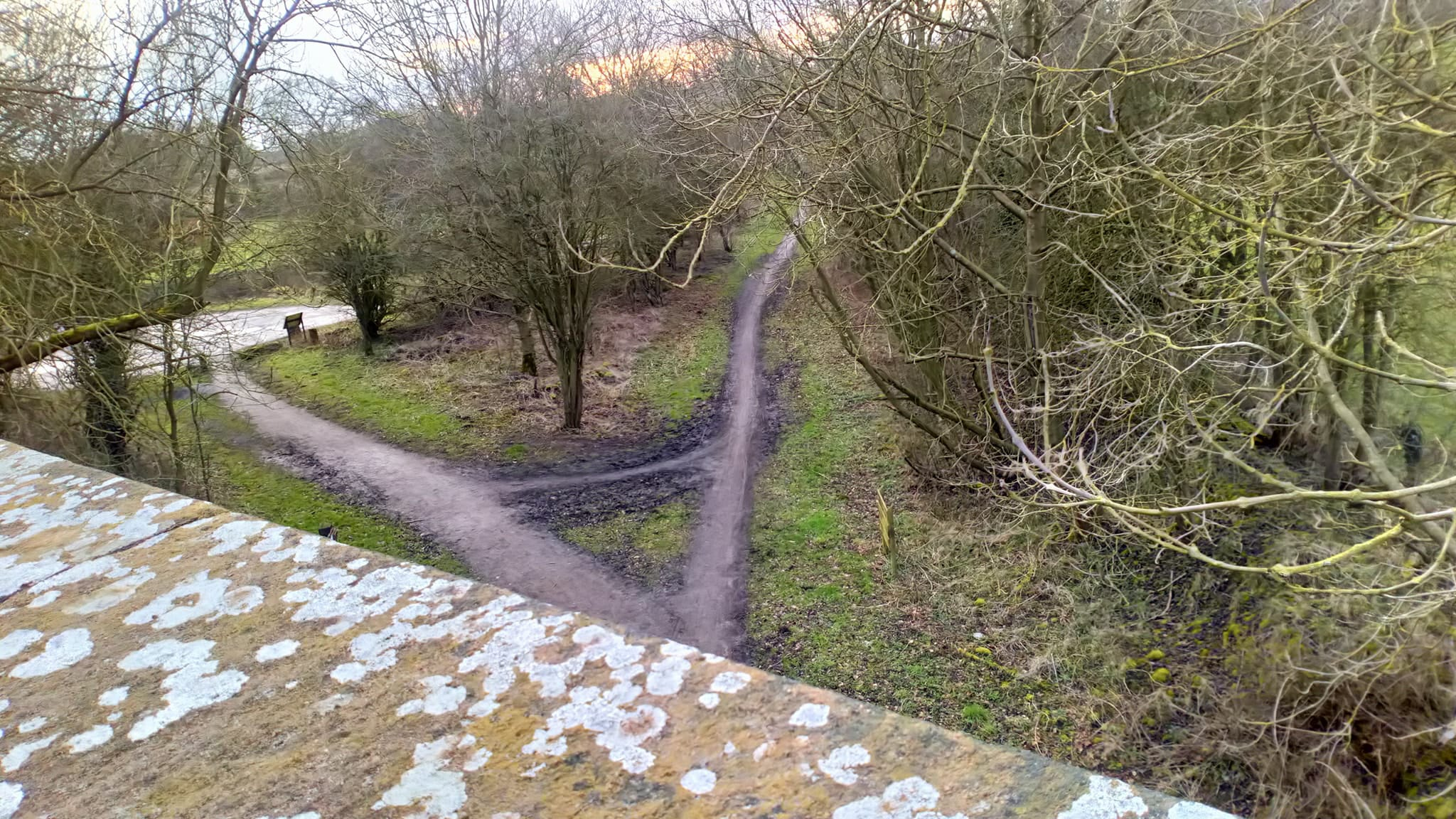 My own.